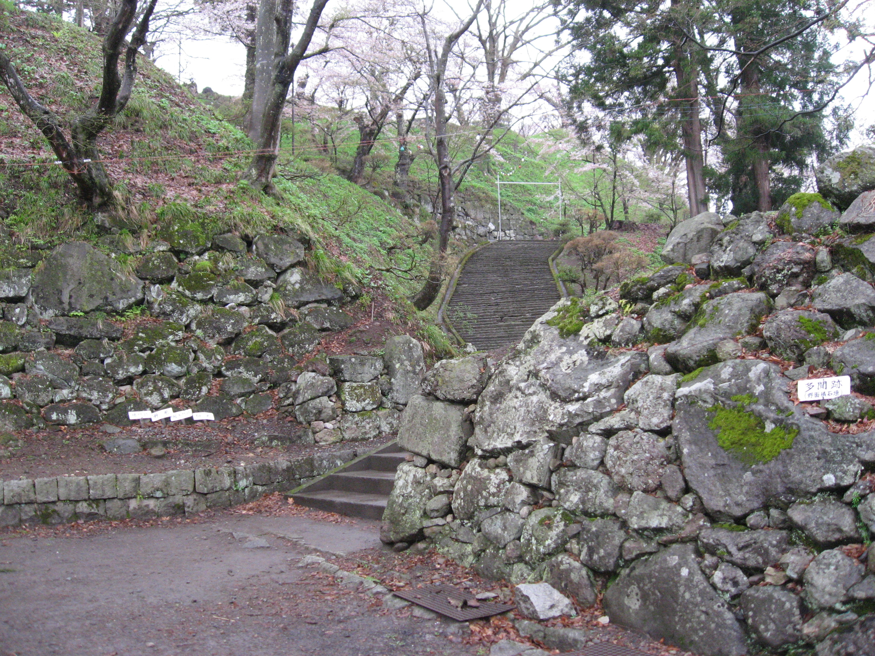 Inawashiro Castle, Inawashiro, Fukushima, Japan